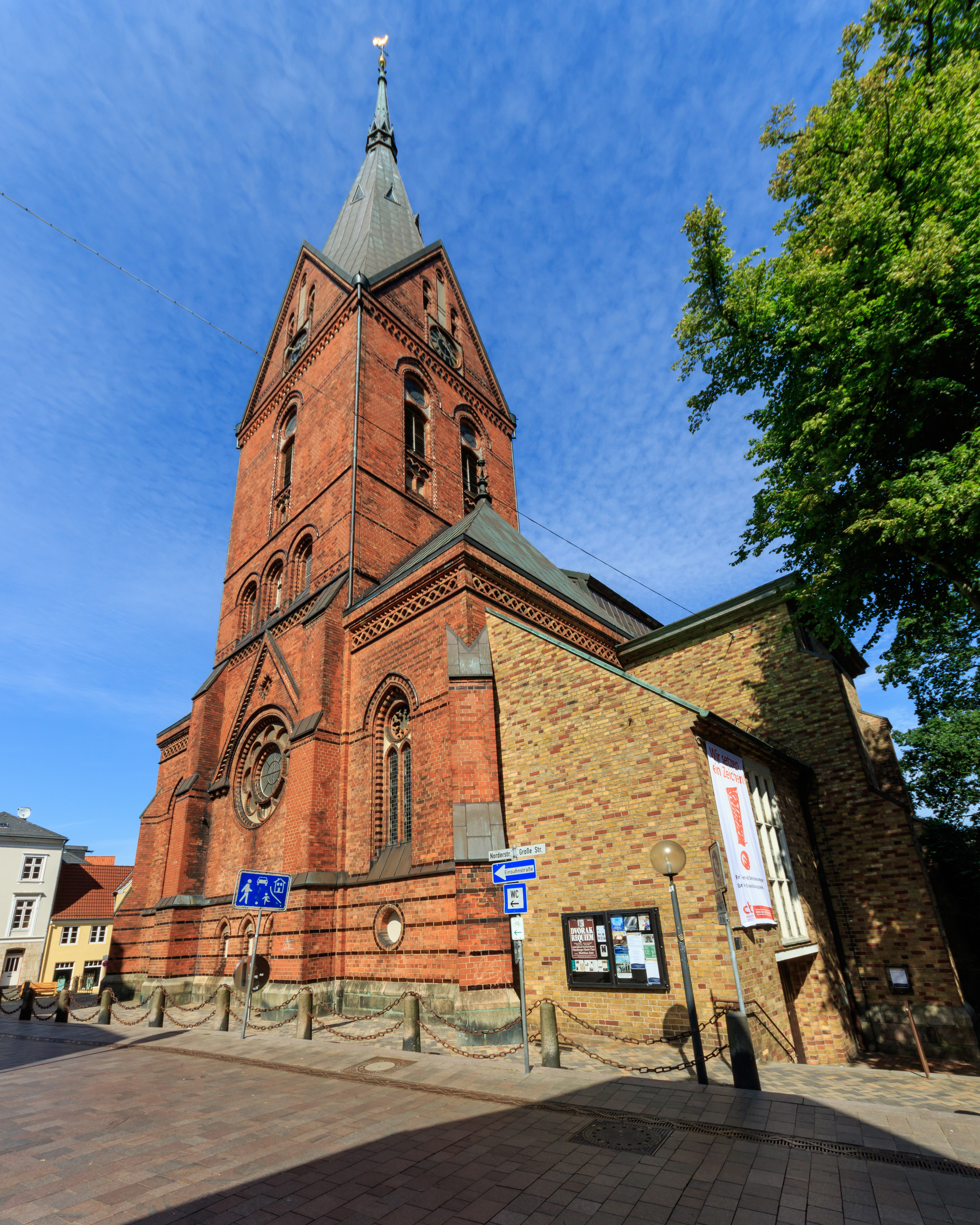 St. Mary church (Lutheran) in Flensburg, Germany